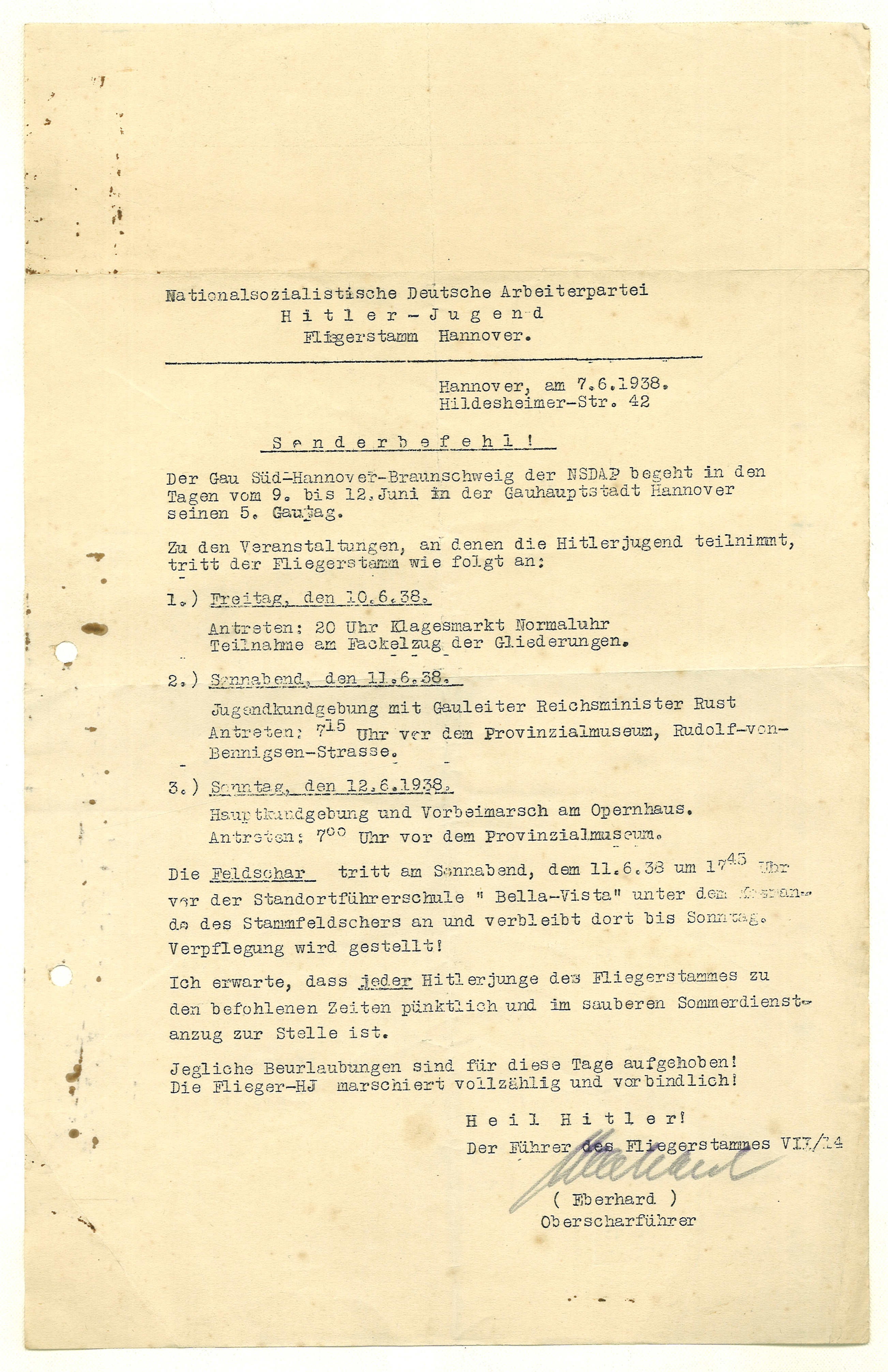 Hitler Youth in Hanover